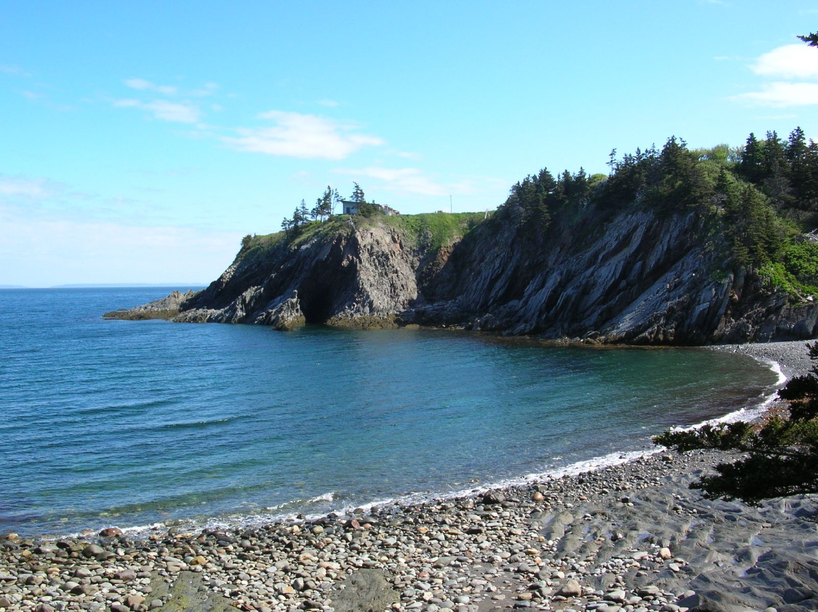 Smugglers Cove Provincial Park on St. Mary's Bay, Digby county, Nova Scotia Flickr - Een van de meest interesante eigenschappen is echter niet natuurlijk, initialen, namen en datums vanverschillende verkenners zijn in de grotwand gekerfd.